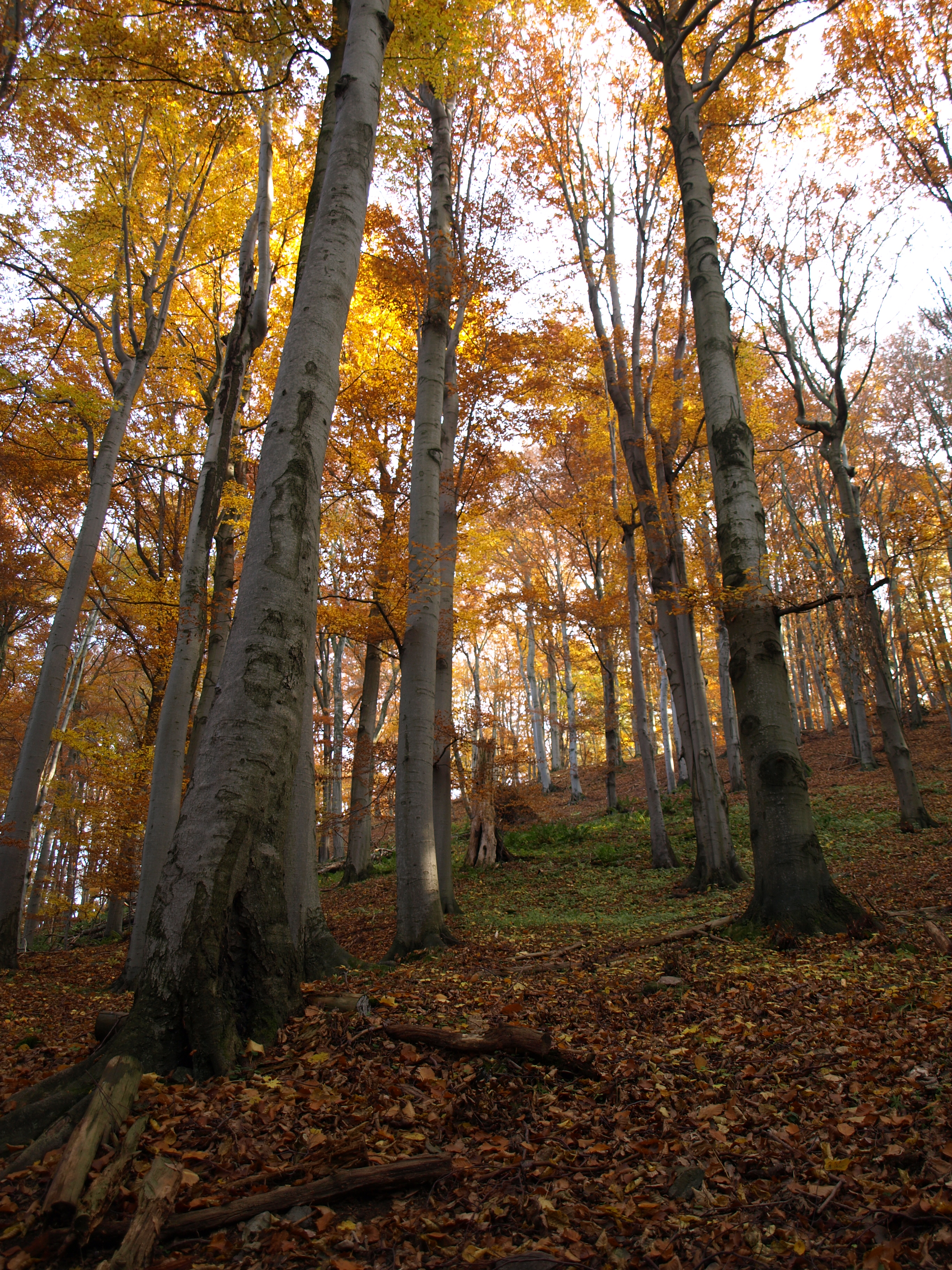 National nature reserve Ve Studeném in Benešov District, Czech Republic